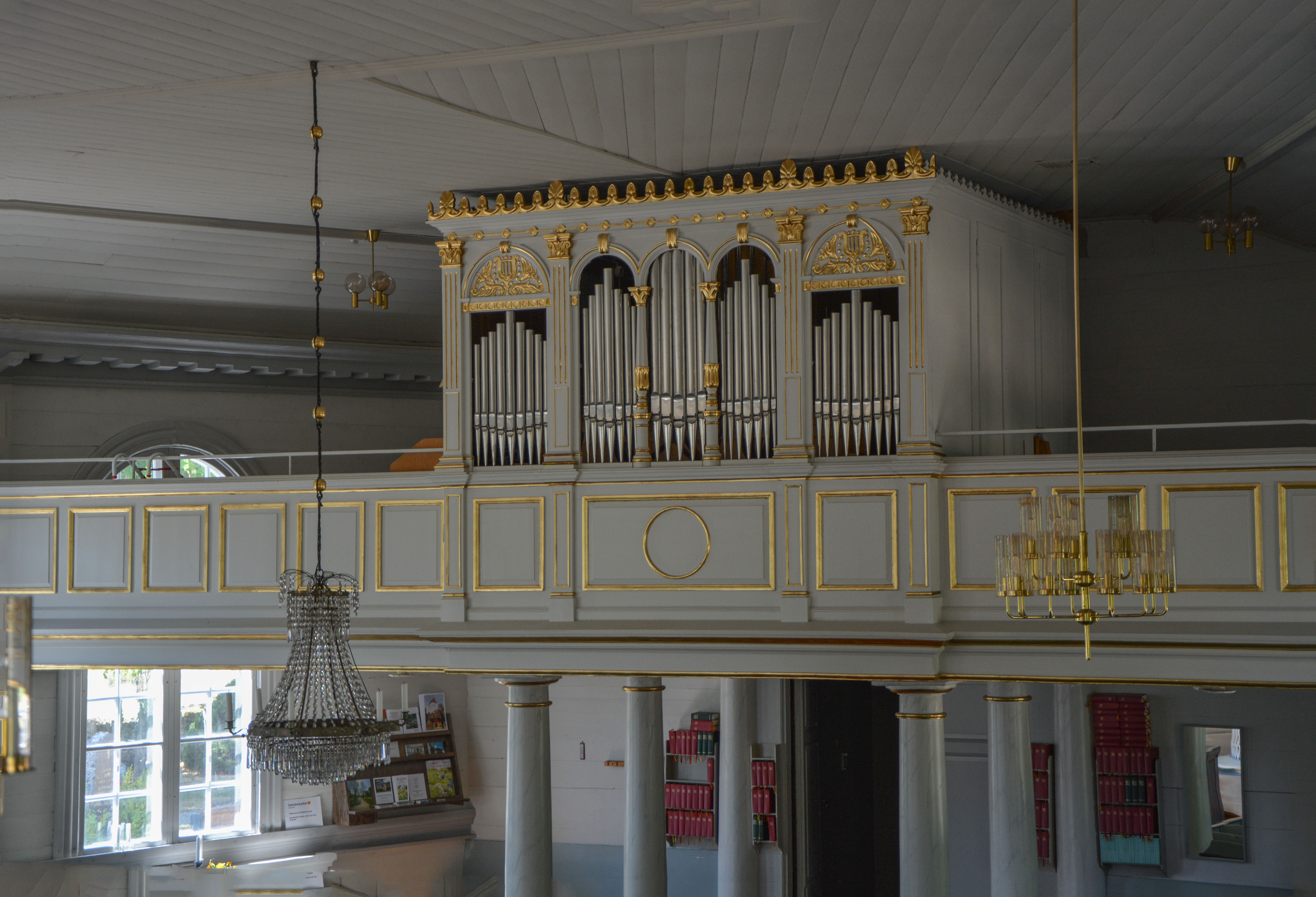 Öljehult Church.The organ